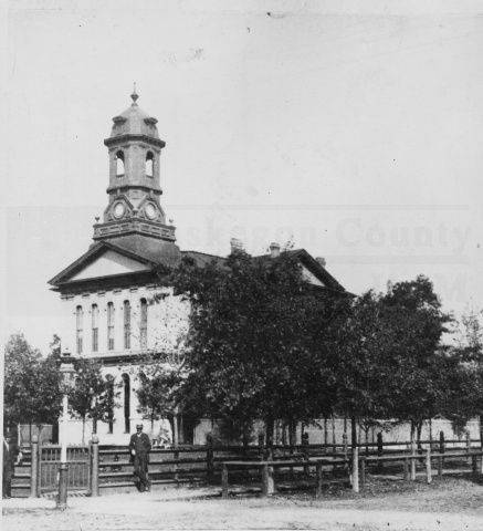 A picture from the Muskegon County Museum showing Muskegon's first court house in 1885. I'm not sure when it was built, but it burned down in 1891.